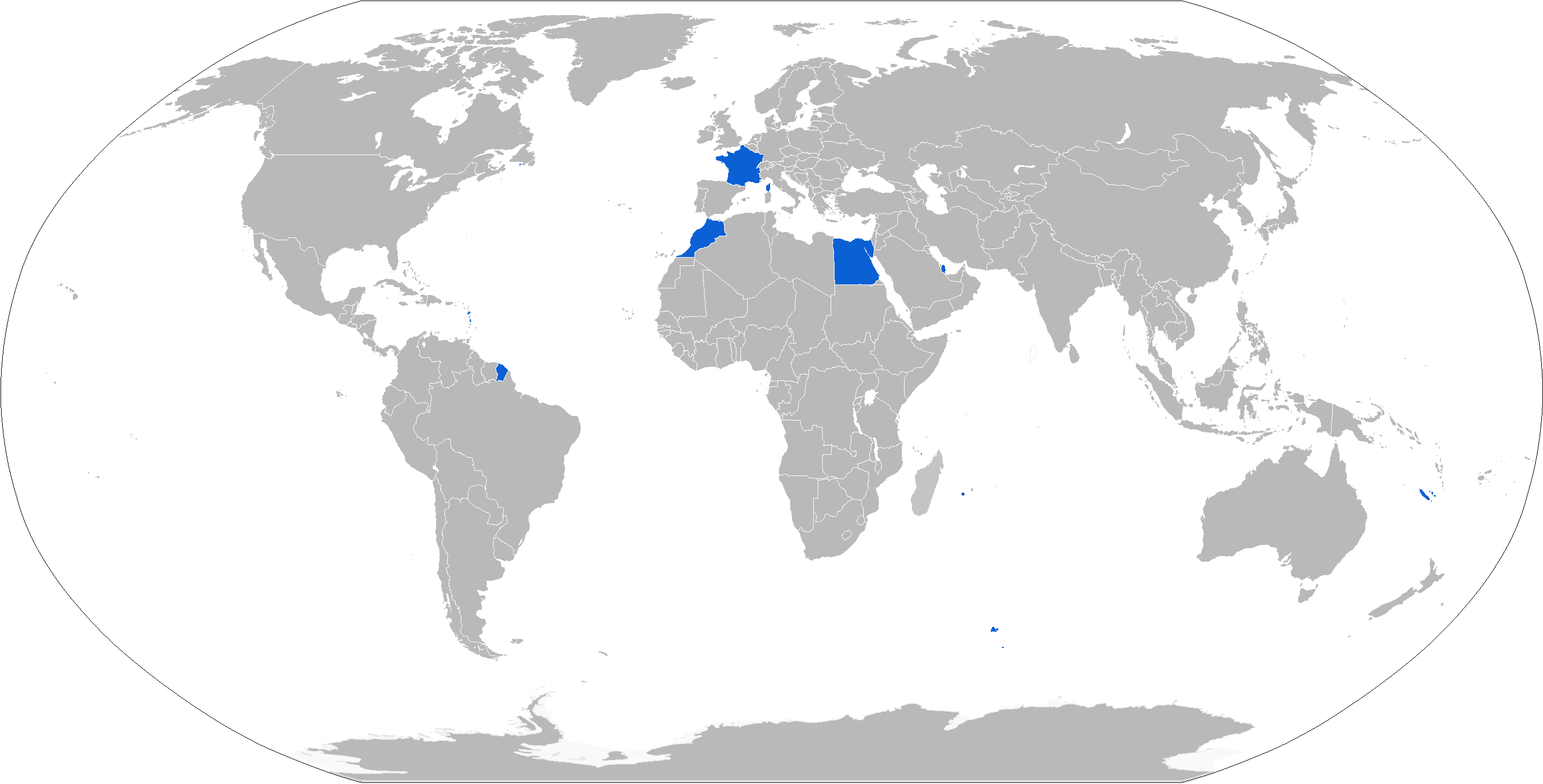 Map with AASM operators in blue